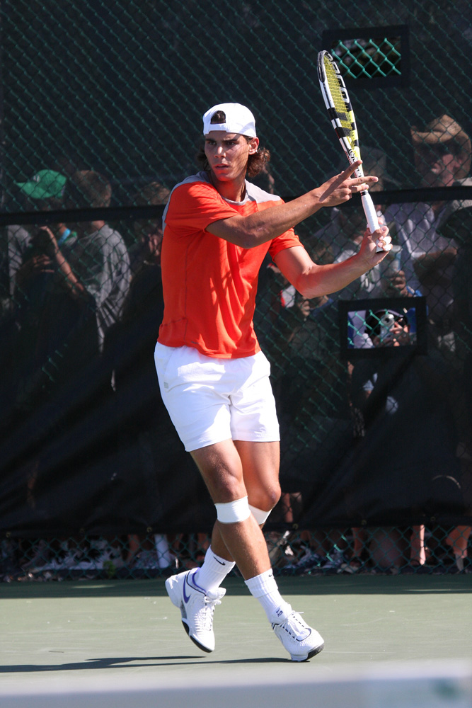 Rafael Nadal Practice Court - 2008 Western & Southern Financial Group Masters Mason, Ohio